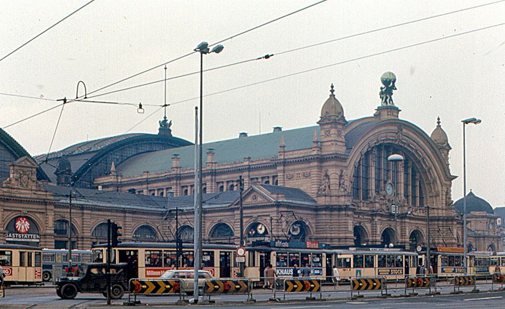 The main station in Frankfurt was opened in 1888, and completed in 1900. Two additional halls were built in 1924. The main streetcar terminus was in front of the station. Note the U.S. Army jeep at left. This photo is "geotagged."